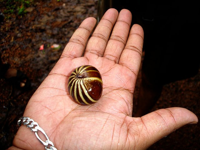 Curled millipede (Sphaerotheriida)